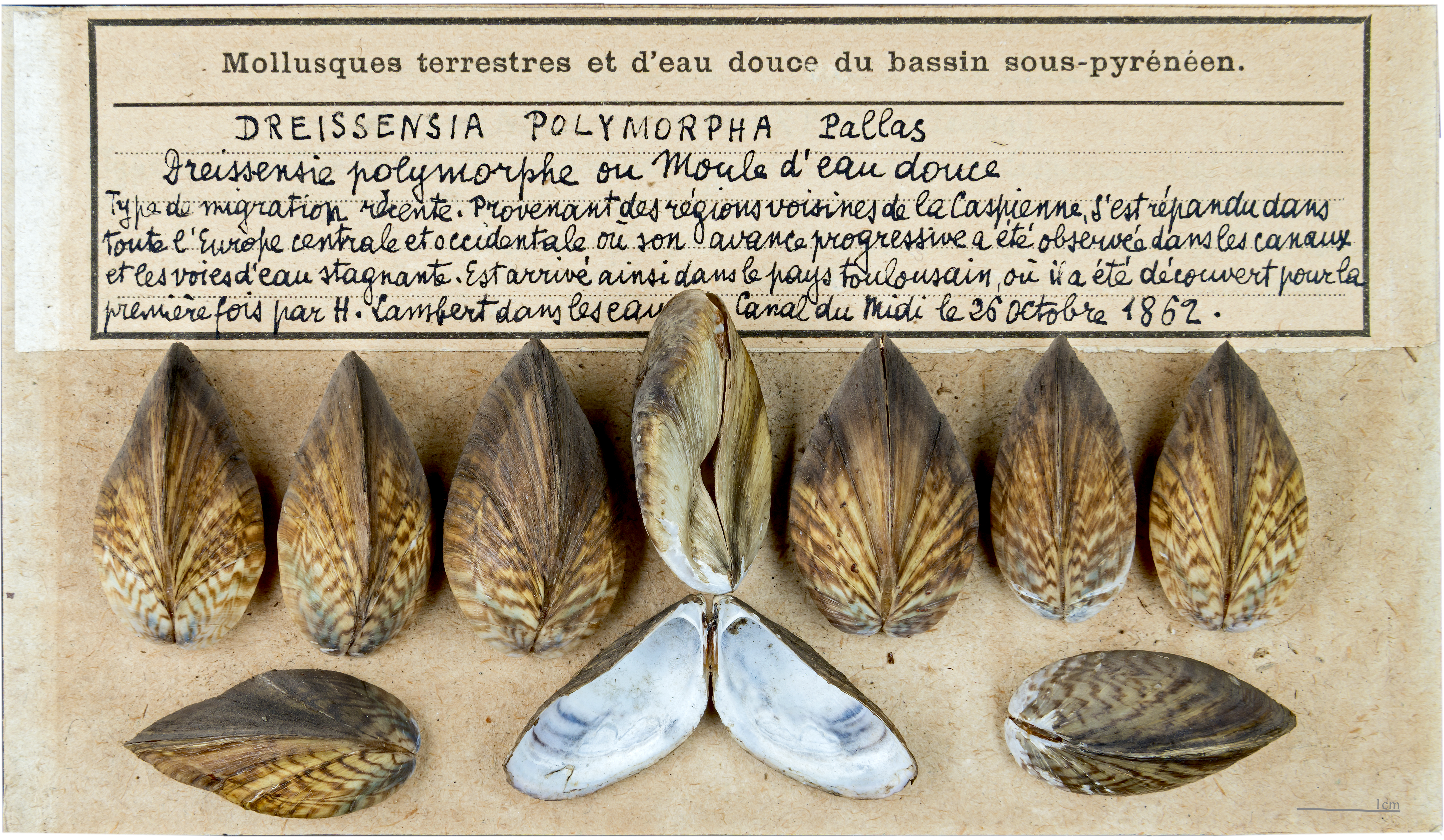 zebra mussel